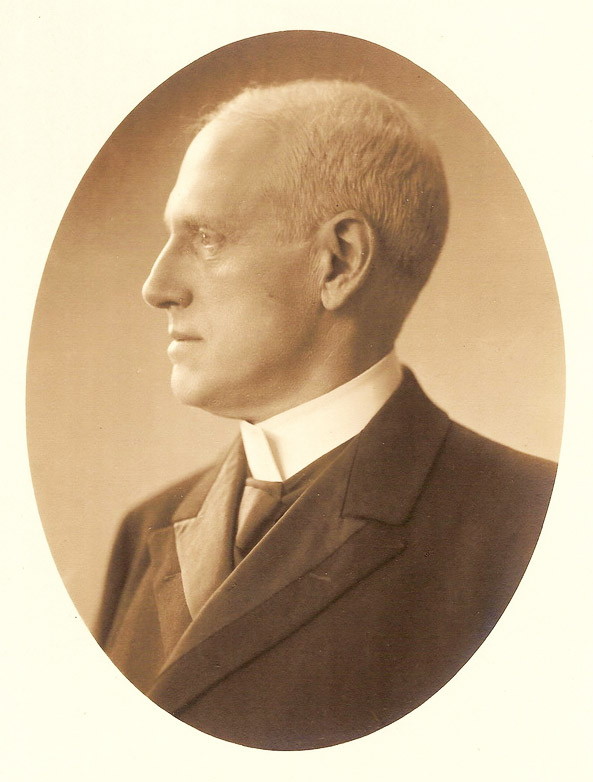 Carl Martin Collin, (1857-1926), Swedish Managing director and bibliophile.